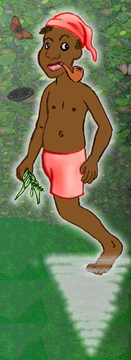 Saci Pererê - Mitologia brasileira. Author: André Koehne Removed watermark read: André Koehne 2006